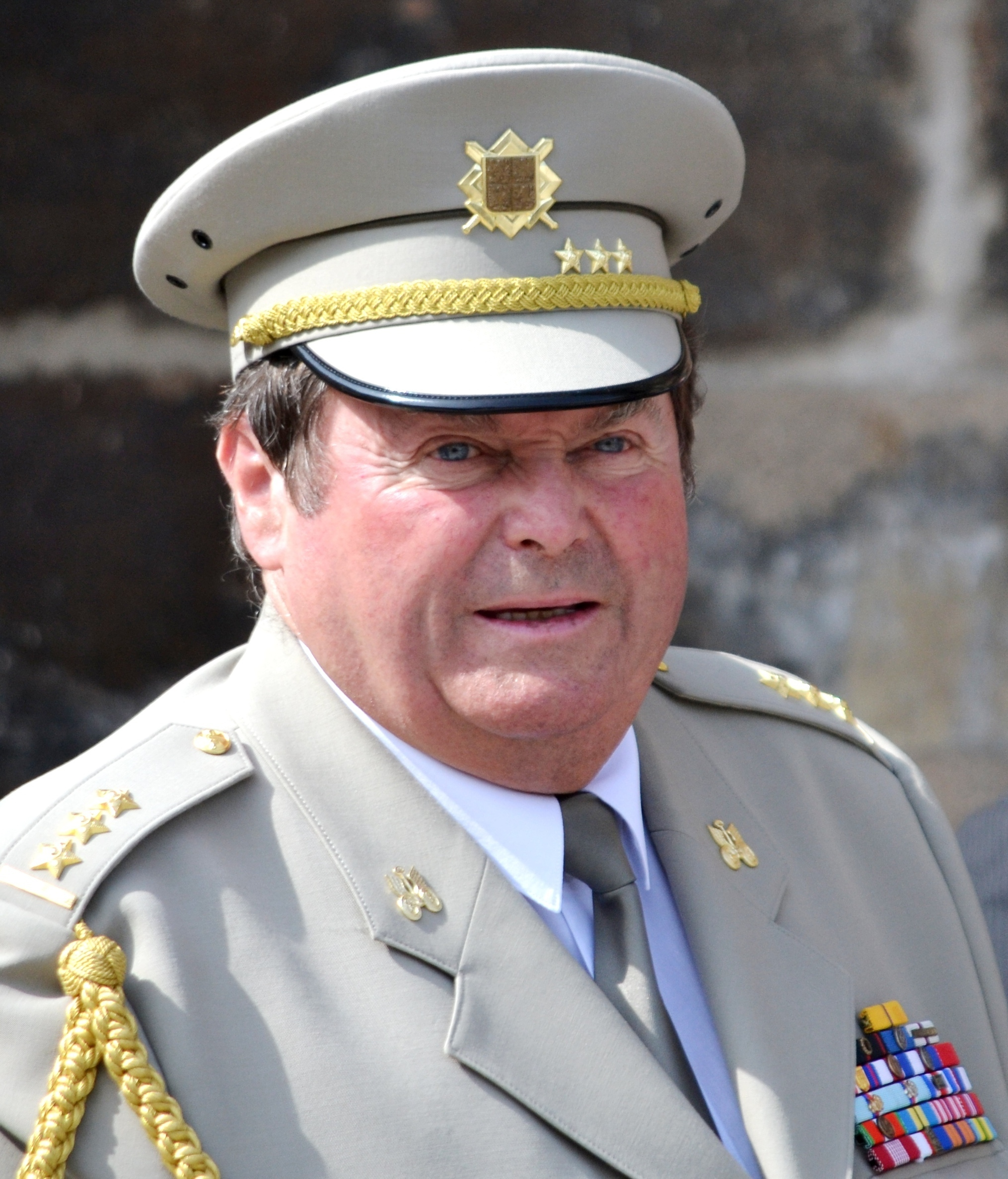 Jaroslav Vodička, Chairman of the Czech Union of Freedom Fighters